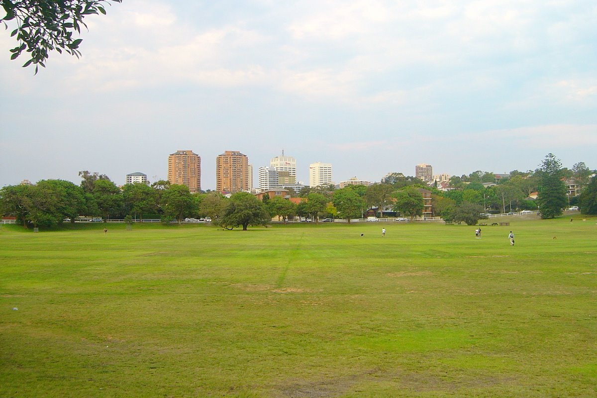 Queen's Park, Queen's Park, NSW, Australia